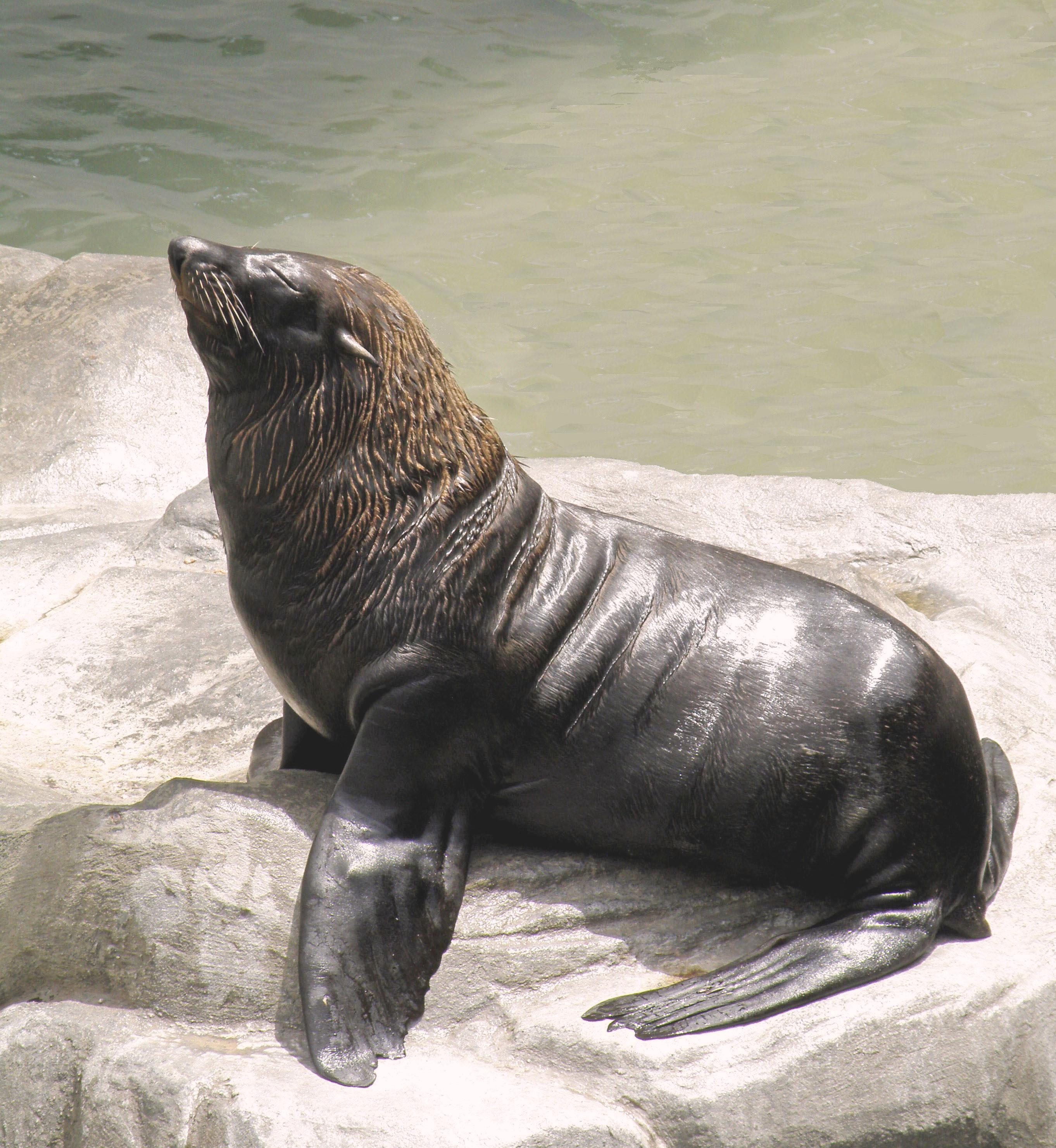 South American fur seal (Arctophoca australis australis = Arctocephalus australis) .